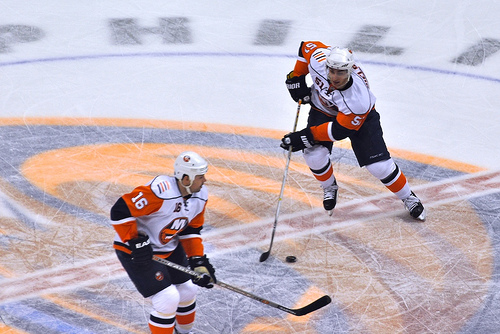 Frans Neilsen and Jon Sim during an Islanders hockey game.